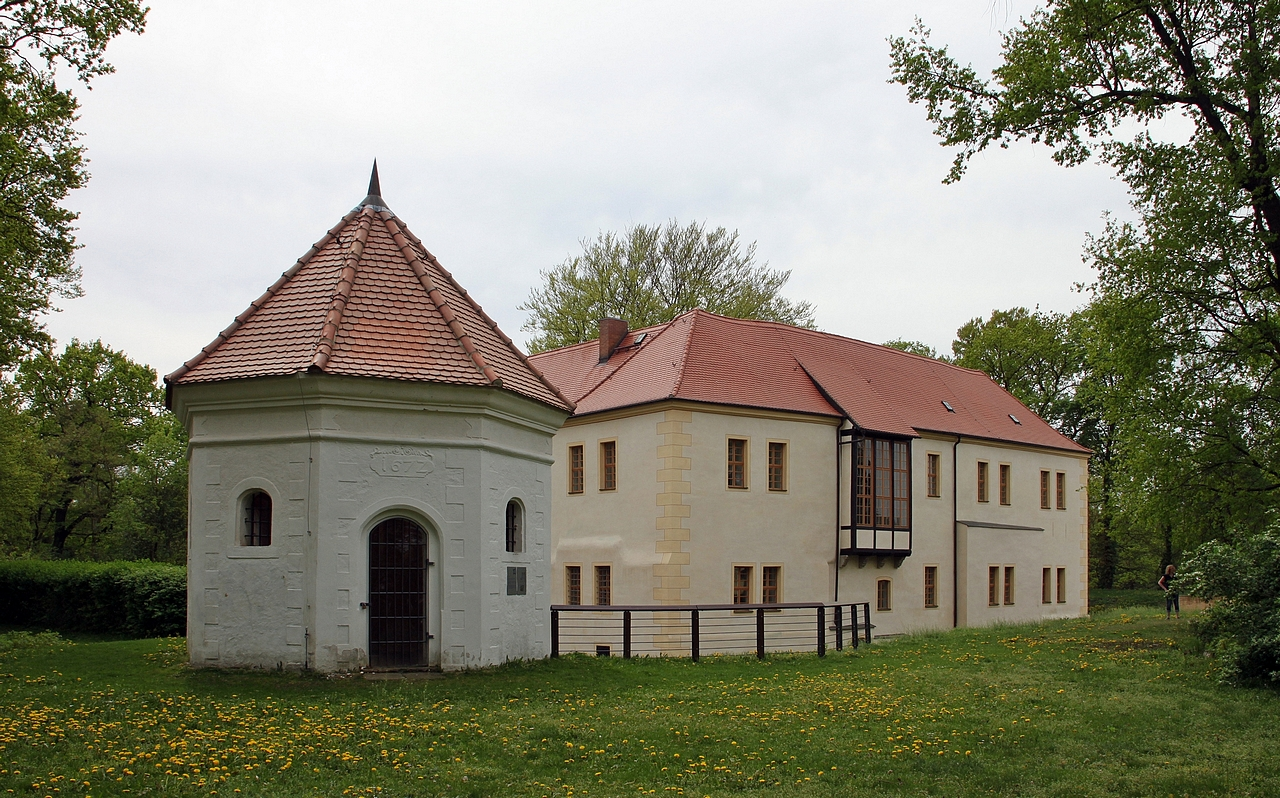 This image shows the powder tower and the castle inside the fortress Senftenberg (cultural heritage monument). Built as a medieval castle, Senftenberg became then an impressive fortress in time of the Renaissance. The fortress is surrounded by a nearly square earth wall with four bastions still completely preserved today.